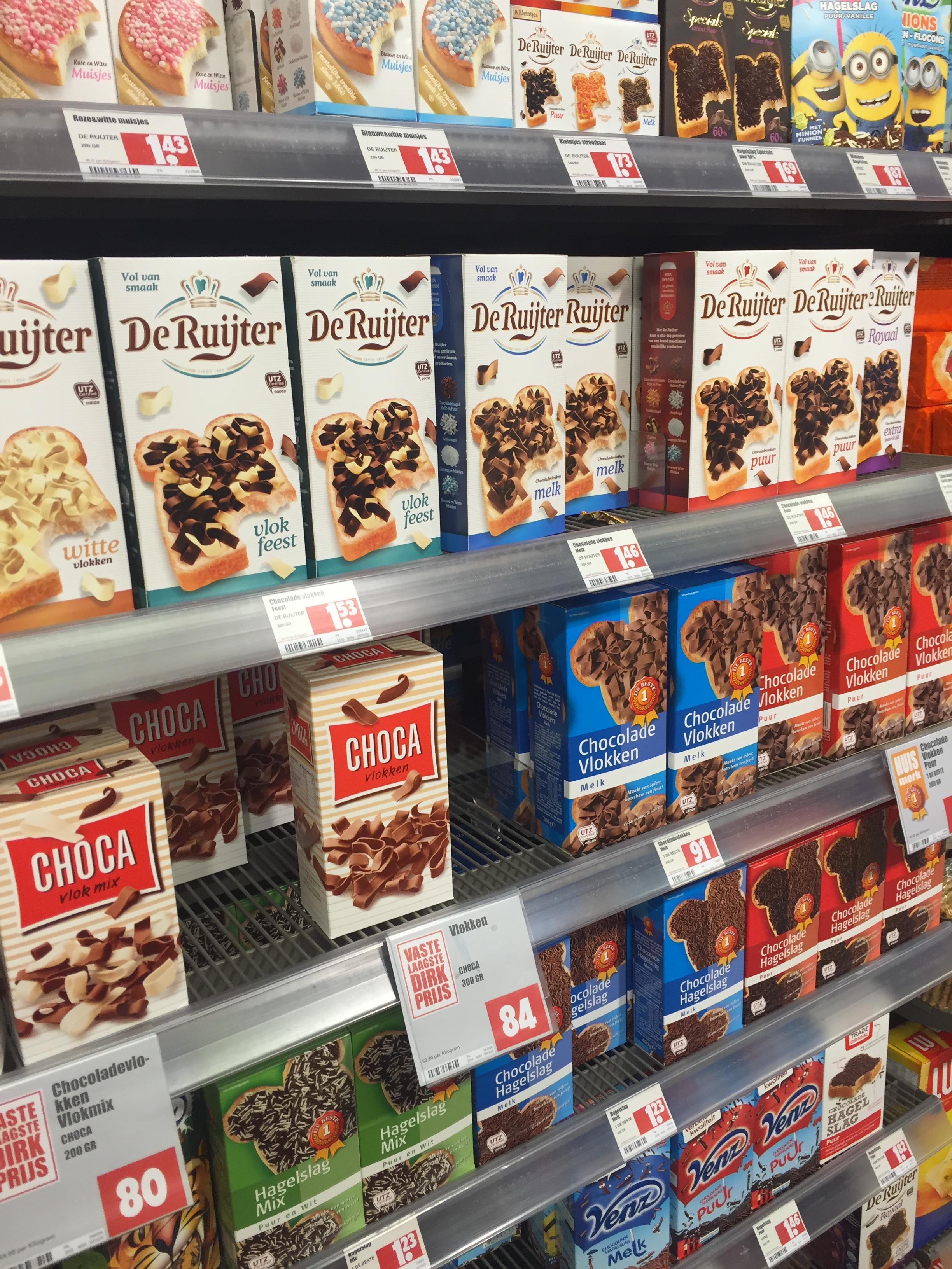 Hagelslag, muisjes, vlokken and other spreads on display in a typical Dutch supermarket.